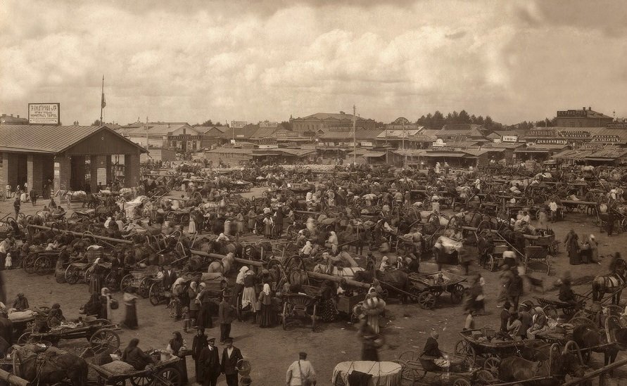 Bazarnaya Square (modern Lenin Square) in 1913, Novonikolayevsk (current Novosibirsk), Russian Empire.